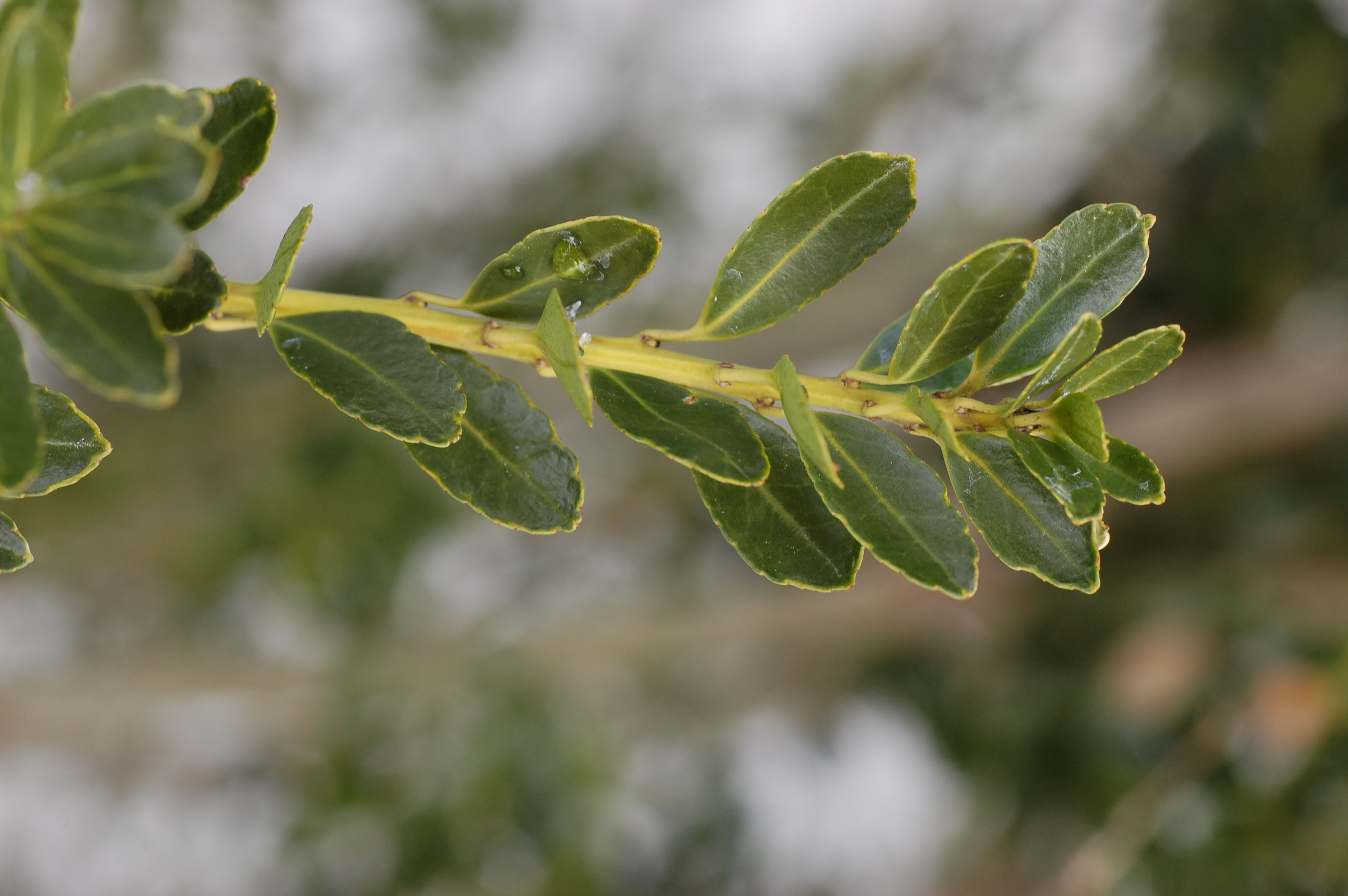 Photograph of the leaves of the Yunnan Hollyen (Ilex yunnanensis en ). Photo taken at the Tyler Arboretum where it was identified.